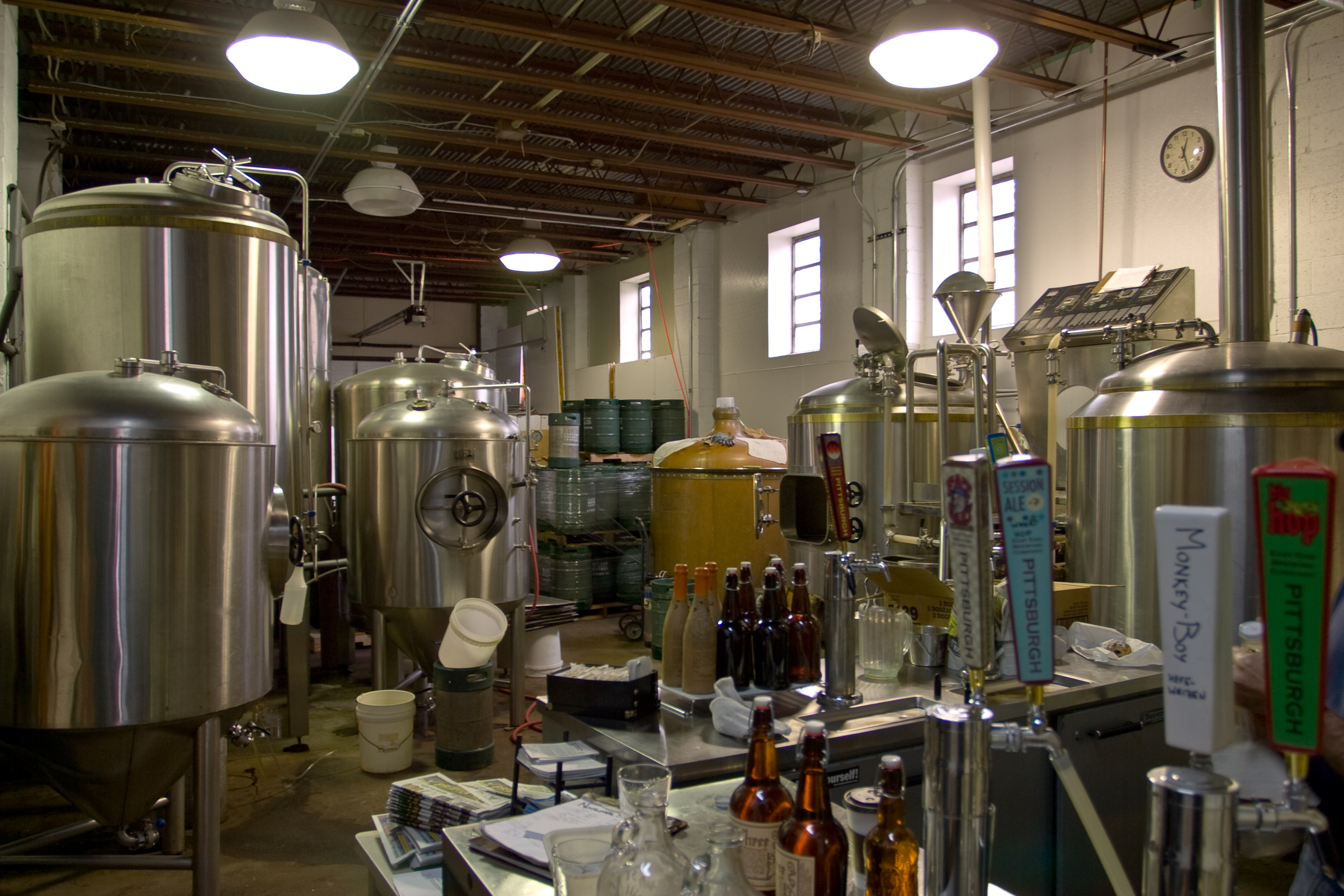 East End Brewing Company during growler hours, April 12, 2008.